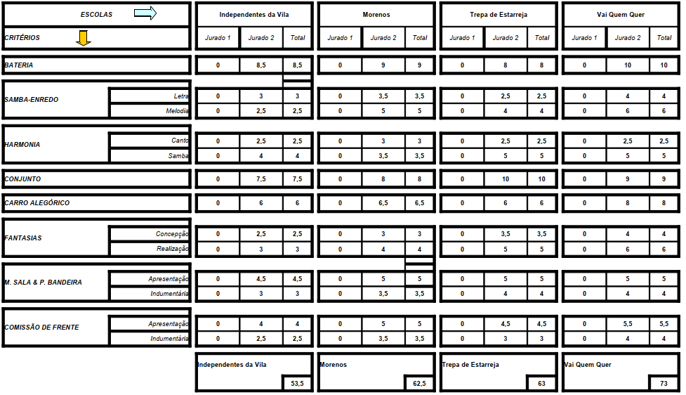 Results of Carnival of Estarreja in 2008